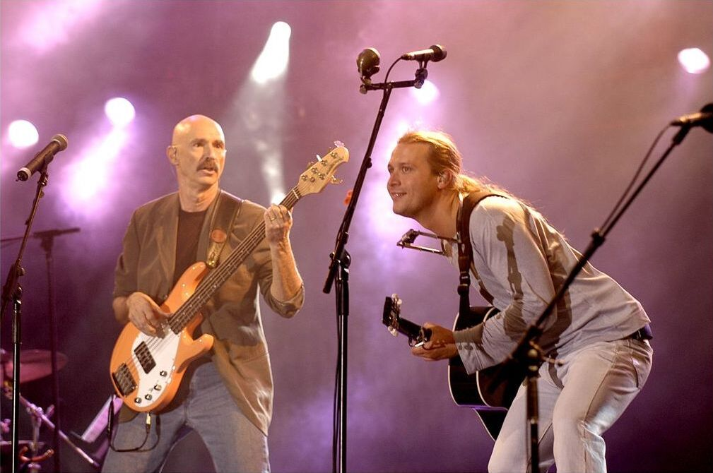 Tony Levin and Kevin Parent by Victor Diaz Lamich